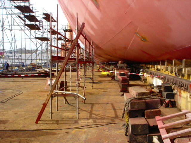 hull of new container vessel 3.400 TEU „Frisia Bruessel“ (Hartmann Shipping Company, Leer) on the day of launching, ship yard „Nordseewerke Emden“ (Thyssen Krupp Group), Emden, East Frisia, Germany